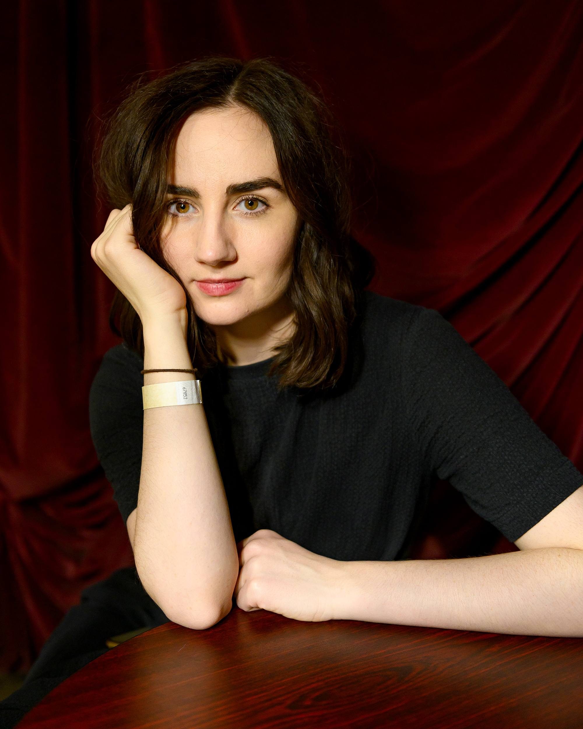 Meg Mac at the Bootleg Theater in Los Angeles, California, on Wednesday, February 27, 2019. Shot for Pass The Aux .